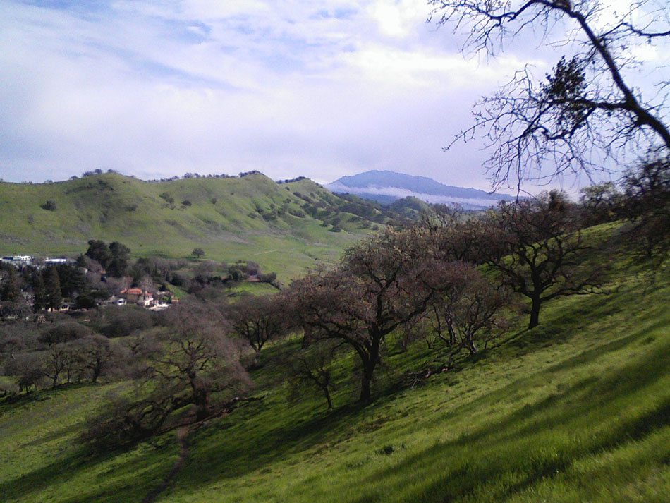 One of four open space areas, partially owned by the city of Walnut Creek